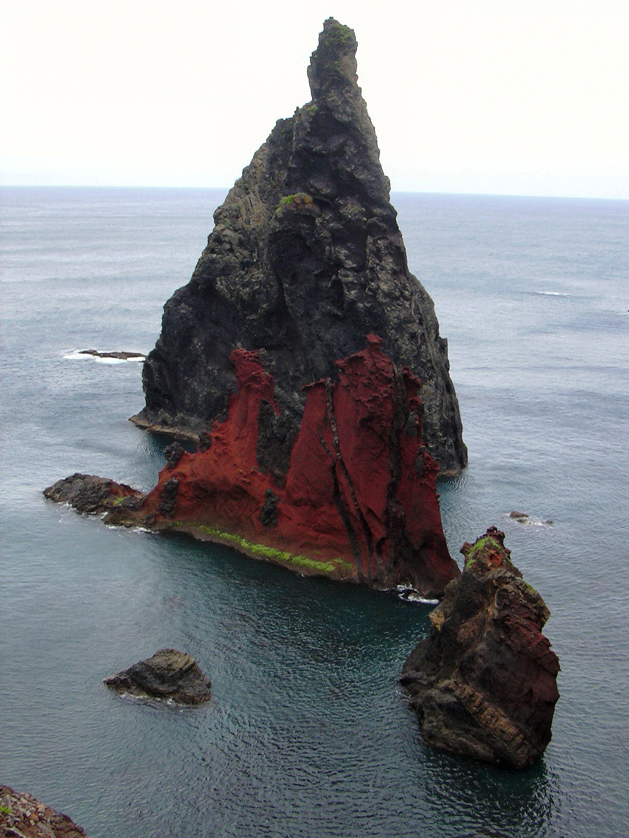 Rock near São Lourenço, Madeira